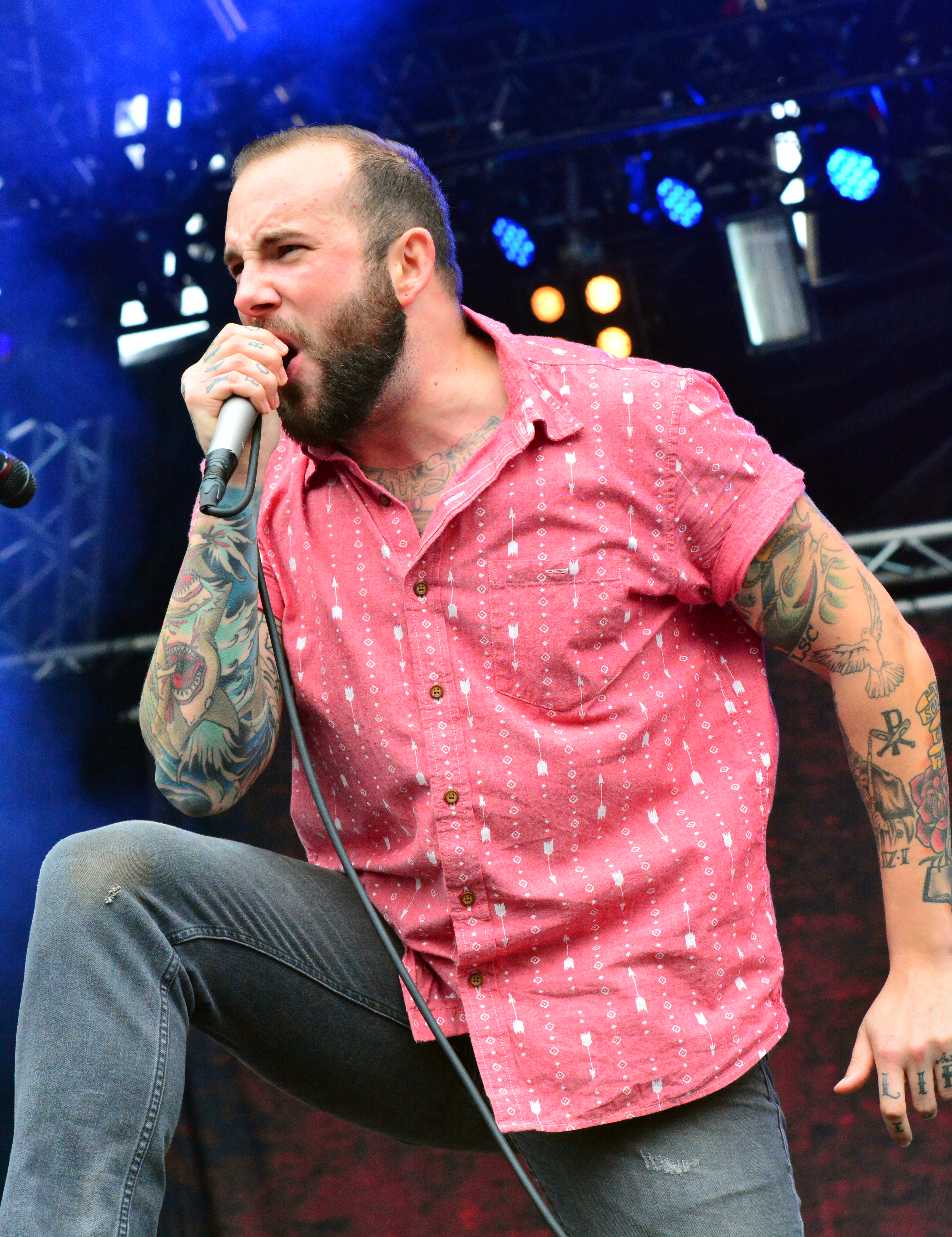 Jake Luhrs performs with August Burns Red at the Elbriot festival, 2014